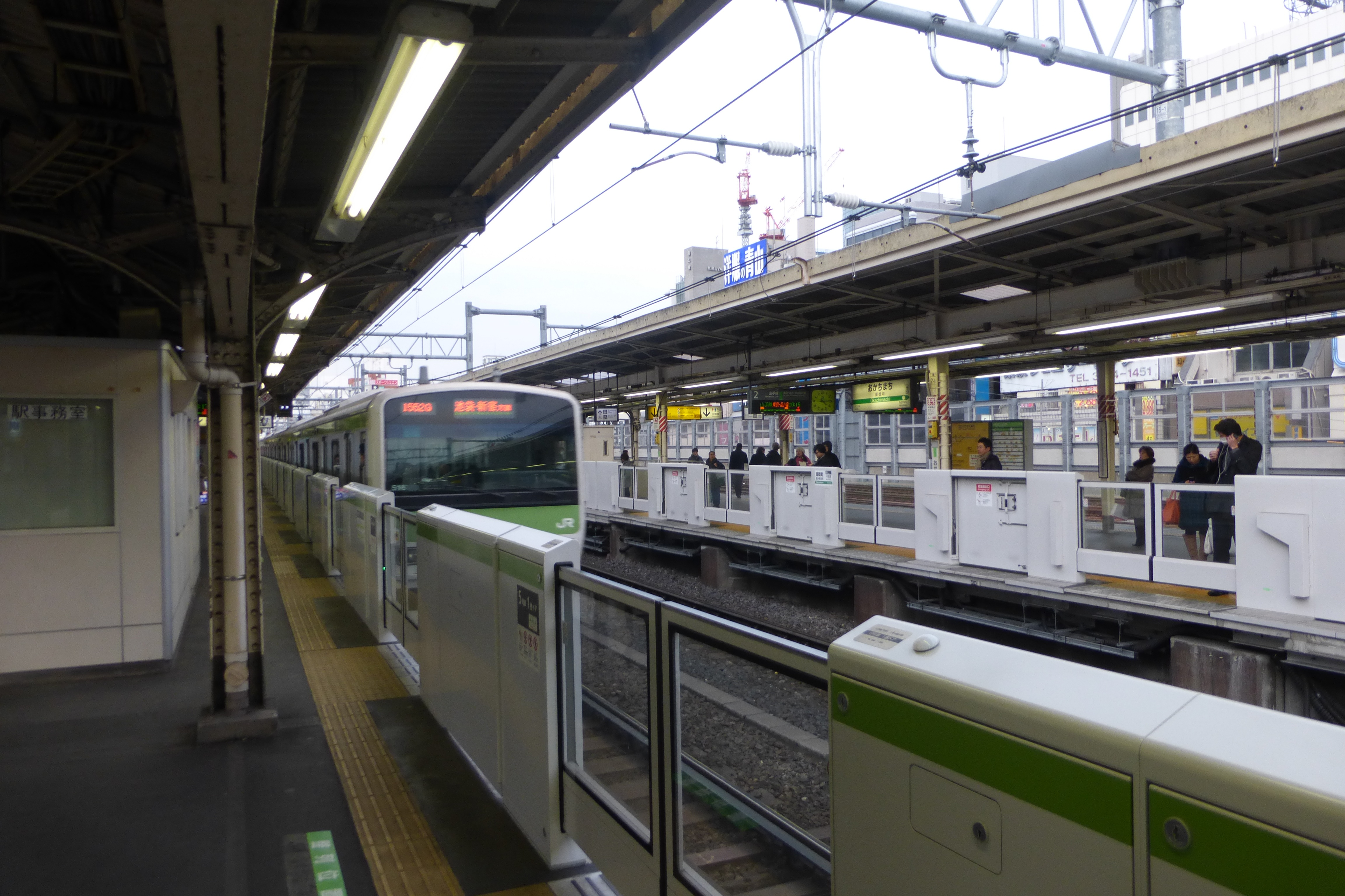 Okachimachi Station platforms (御徒町駅のホーム)